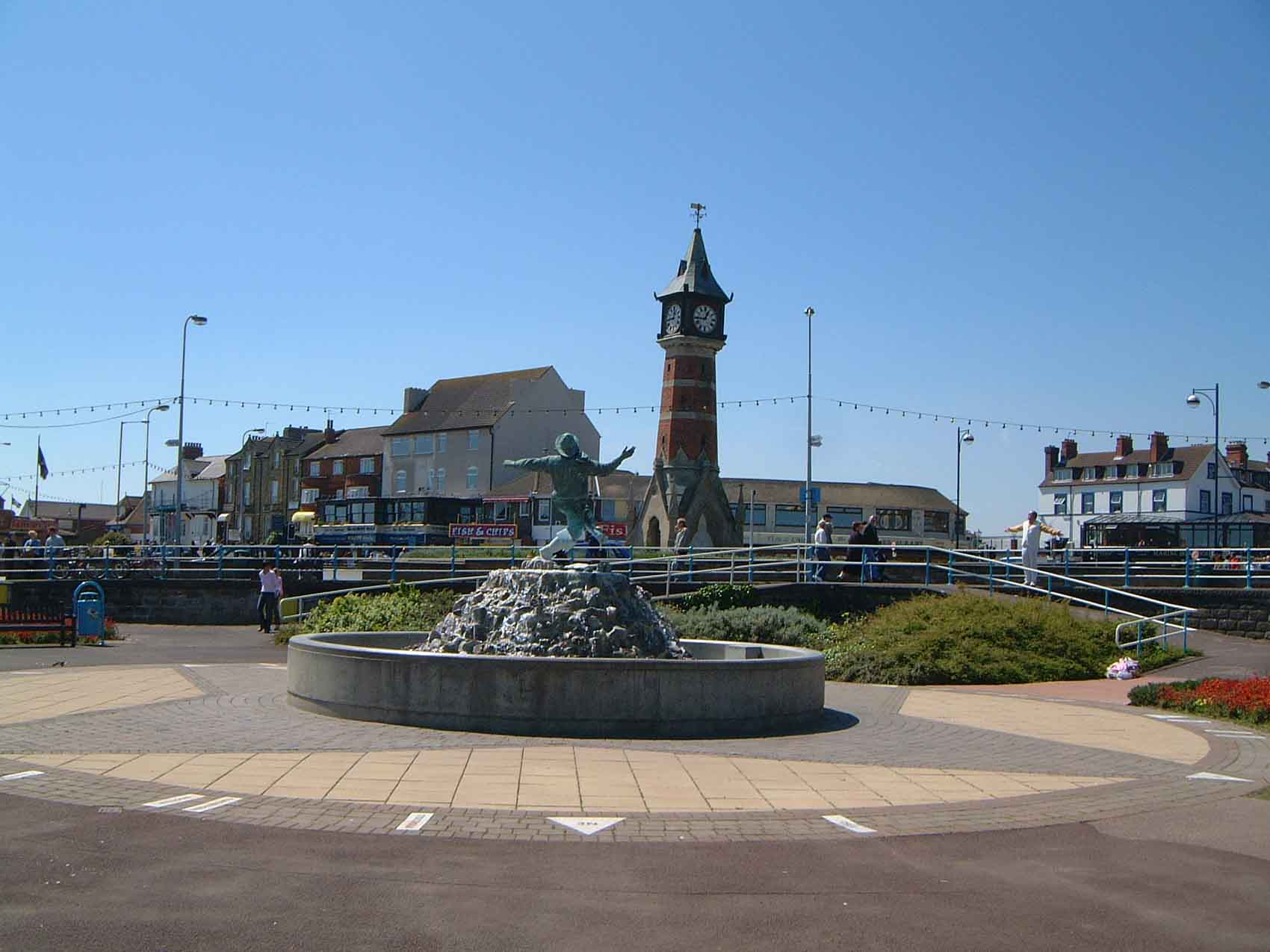 Personal photograph taken by Mick Knapton on May 15th 2005.